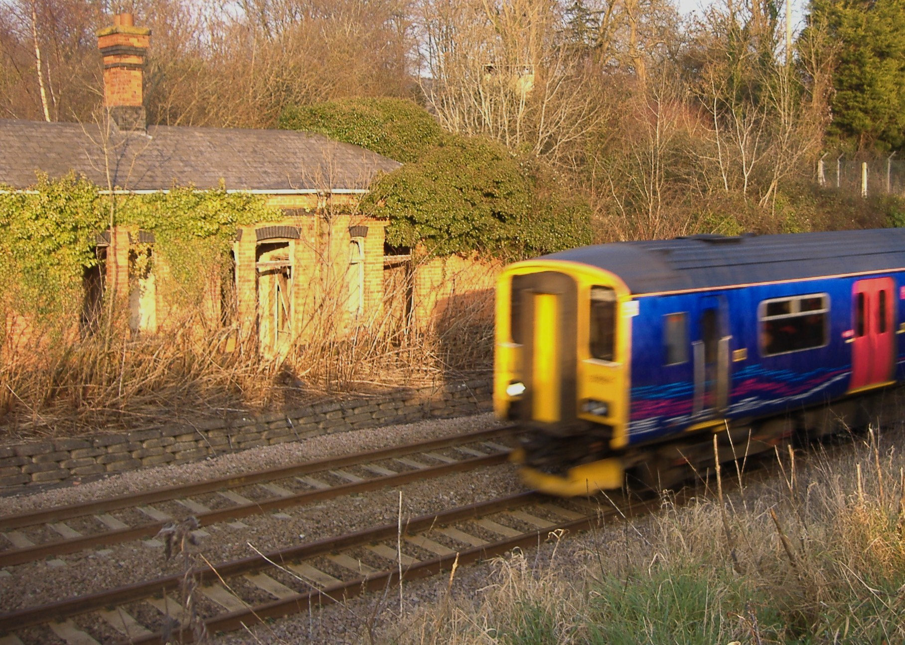 The remains of Flax Bourton railway station on the Bristol-Taunton line - a First great Western Class 150 headed to Weston-super-Mare speeds through.